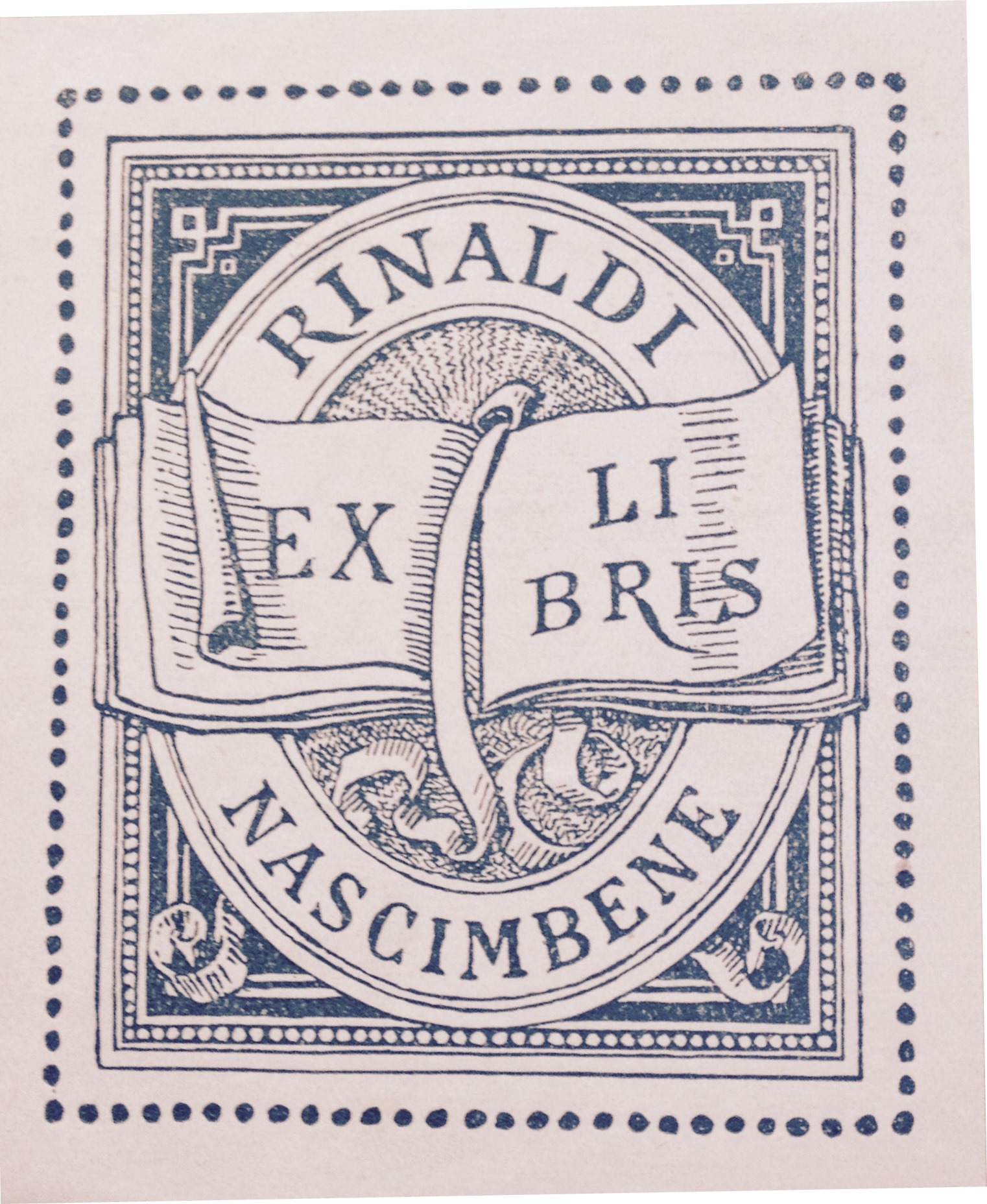 Rinaldo Nascimbene bookplate